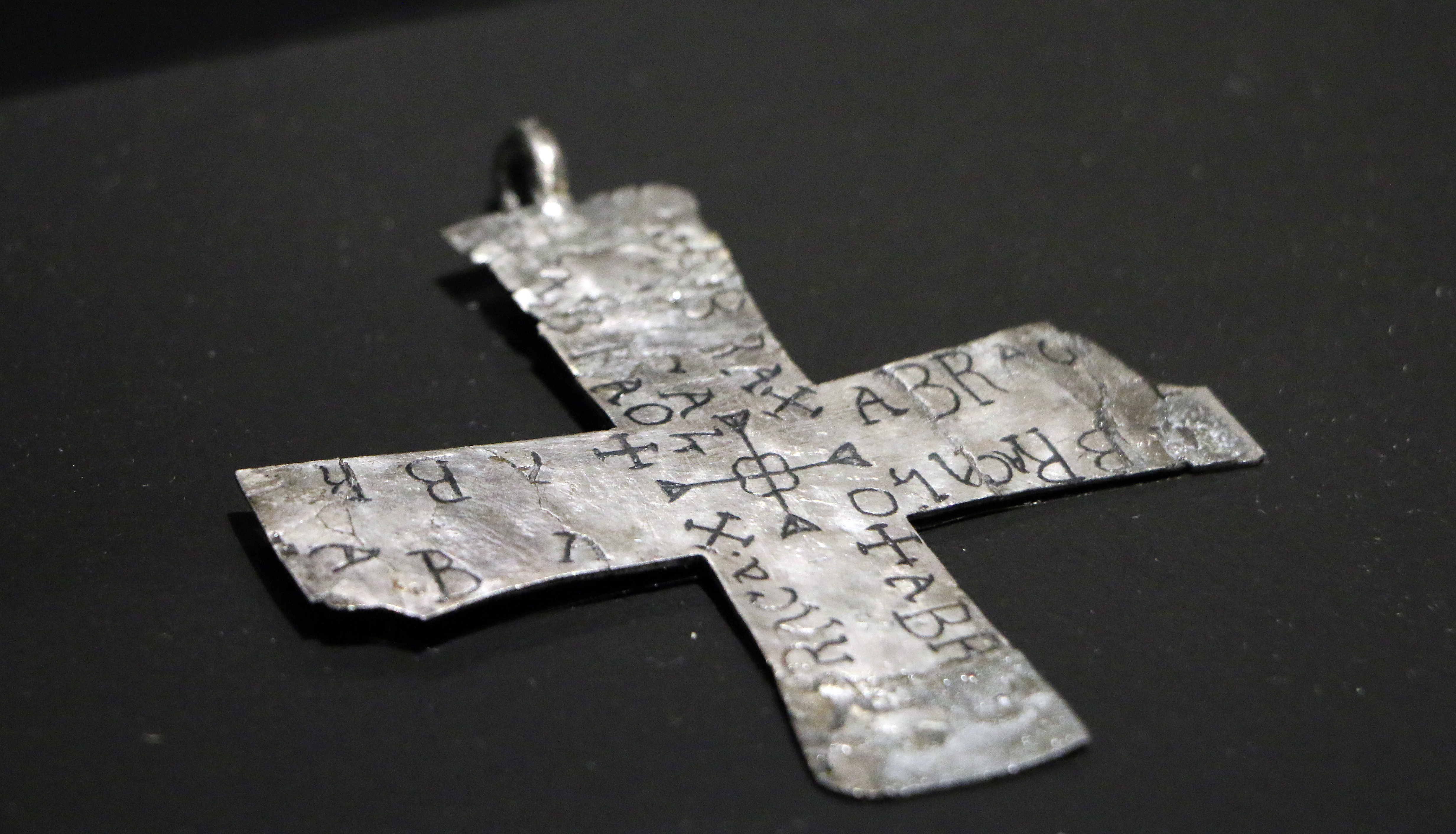 Talisman cross made of Niello silver. On it magical signs and incantation very close to "Abracadabra" 6th-7th century